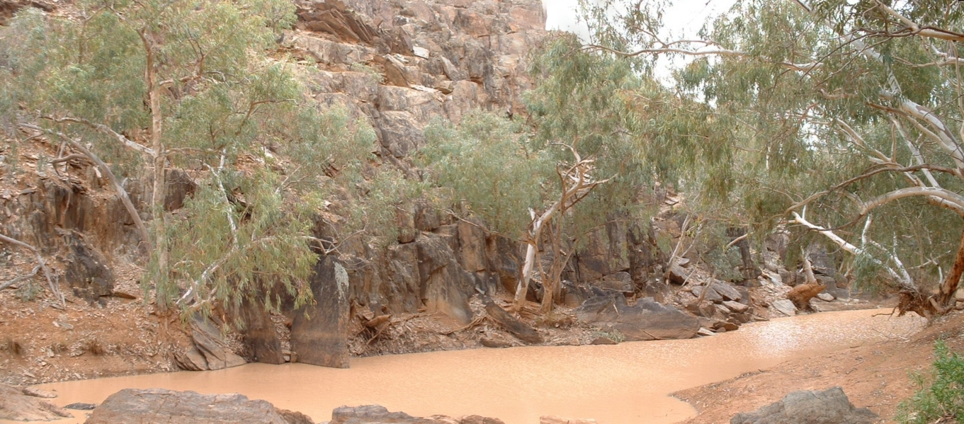 Preservation Creek, New South Wales. This shows the Depot Glen waterhole where Charles Sturt camped in 1845. Sixteen kilometres west of Milparinka.